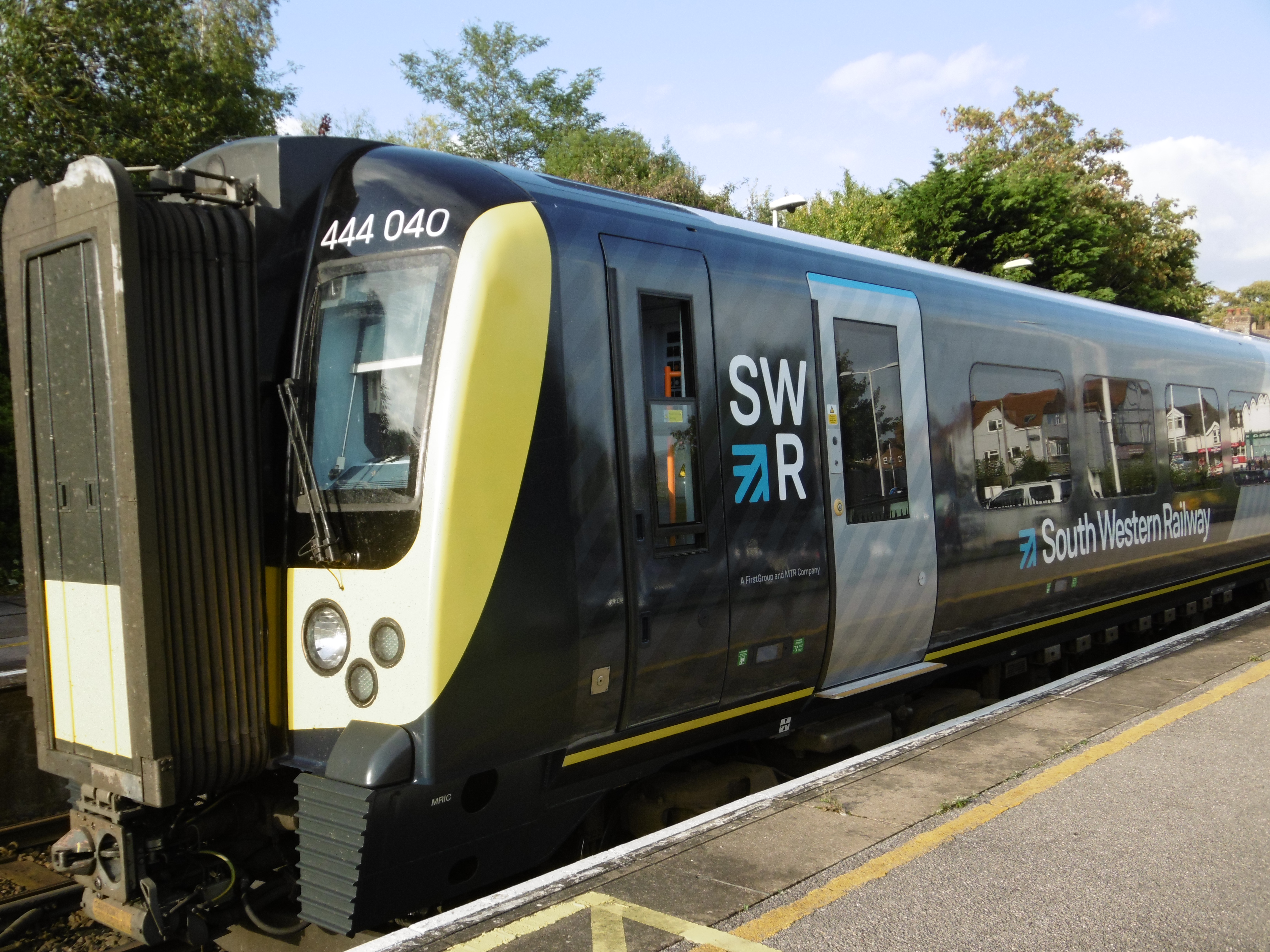 444 040 at New Milton Station